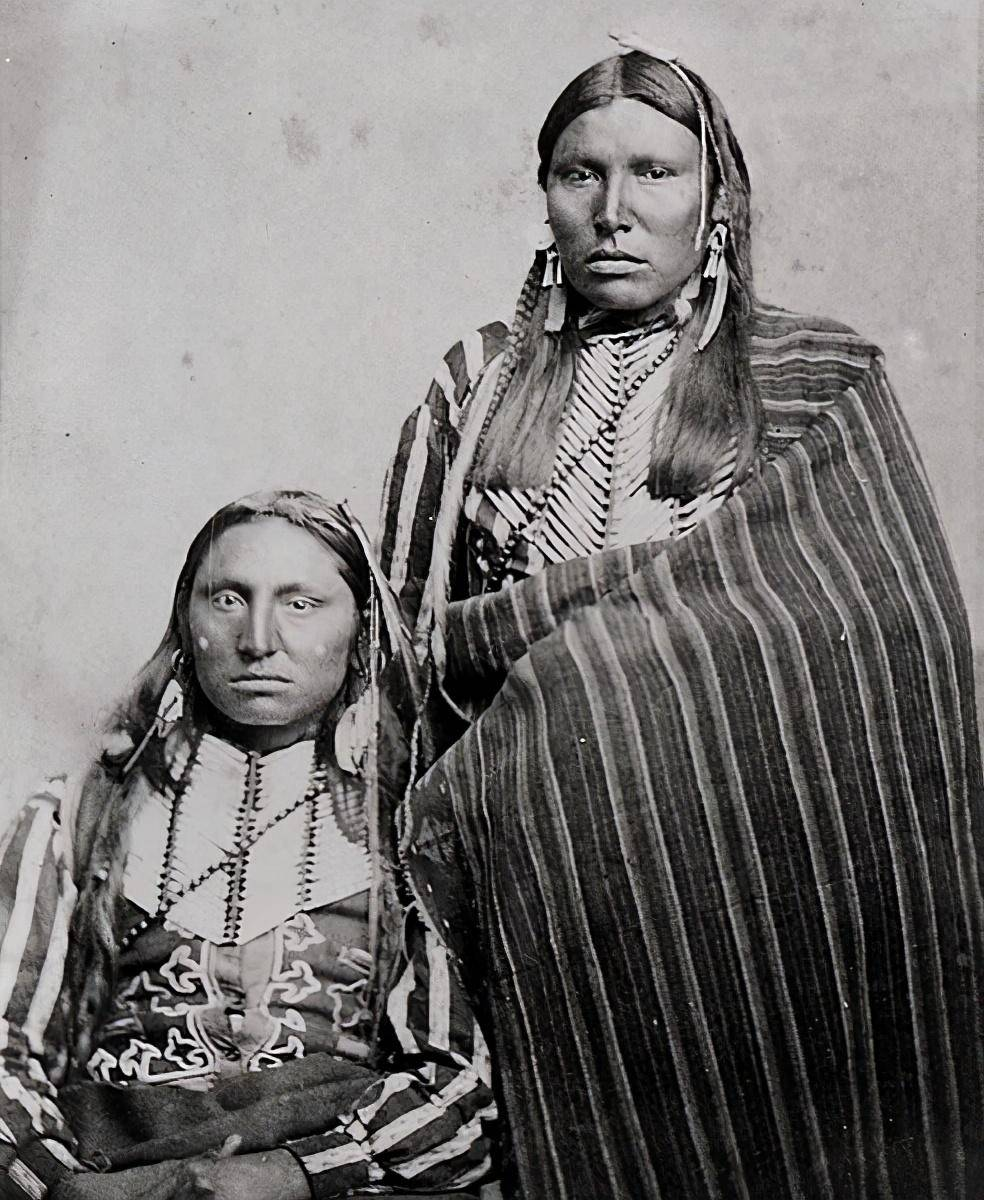 Comanche warriors, circa 1867-1874, courtesy of the Center for American History (#01355), The University of Texas at Austin.